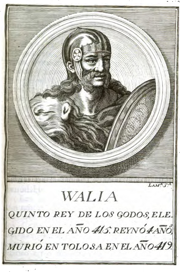 A poster of WALIA, Visigoth king, n° 5 in the chronological order of the book digitalized by Google since the bookshop in the University of Oxford.